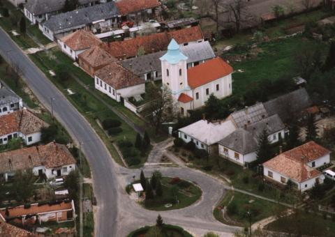 Bakonygyirót roman catholic church (national monument) and parish (national monument) This is a photo of a monument in Hungary, Identifier: 9609 This is a photo of a monument in Hungary, Identifier: 9608